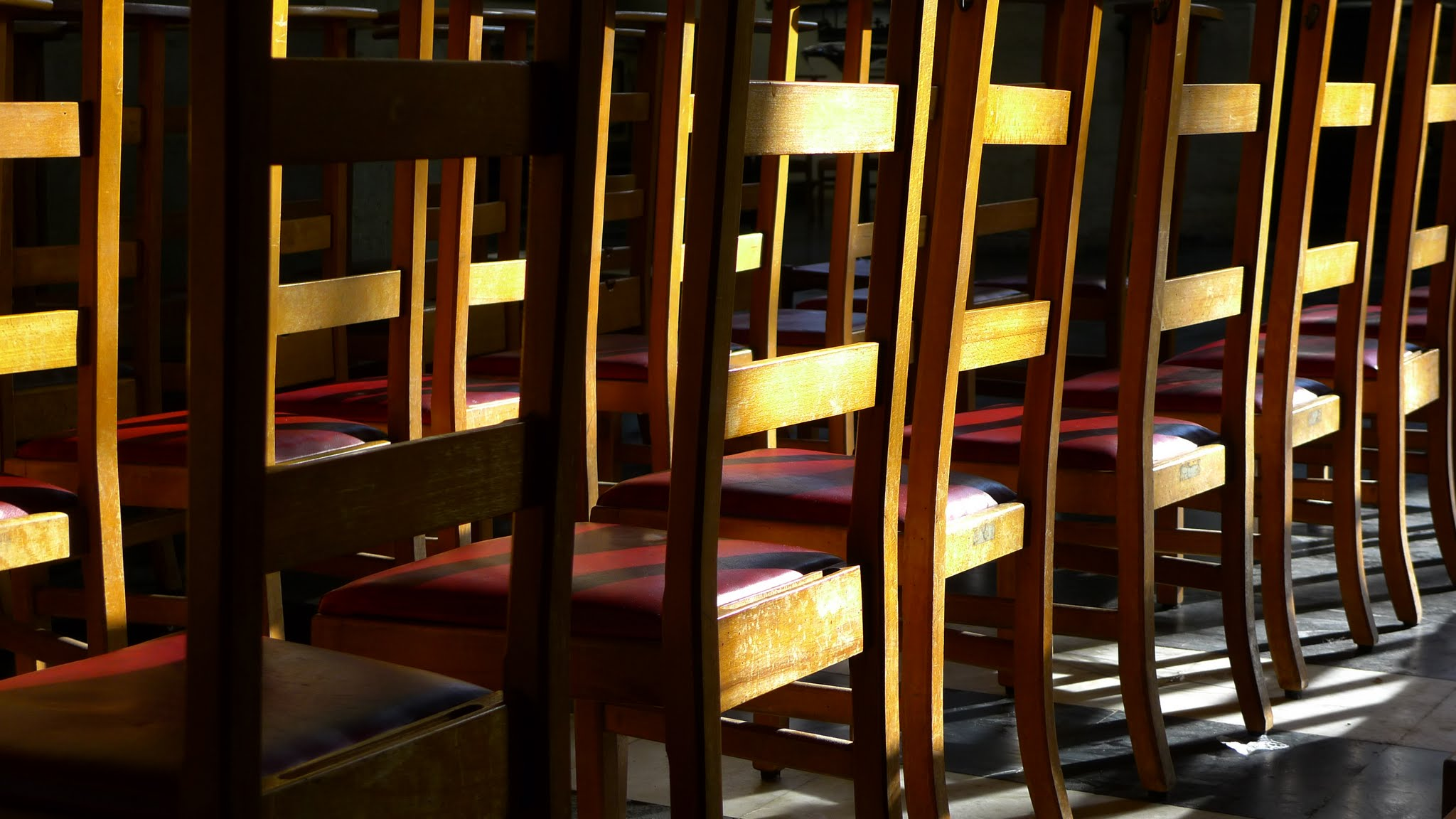 Waiting for service